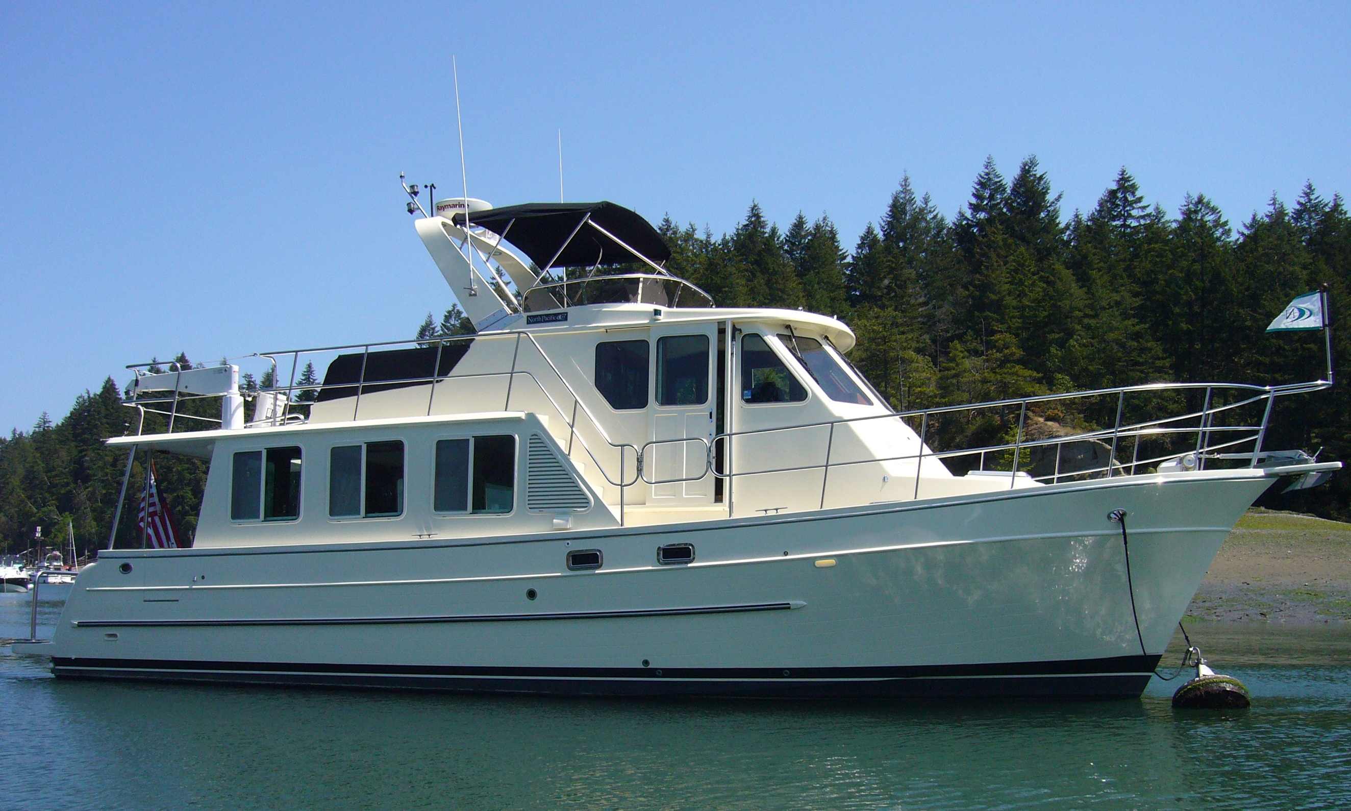 A side view of a North Pacific 43 ft. yacht